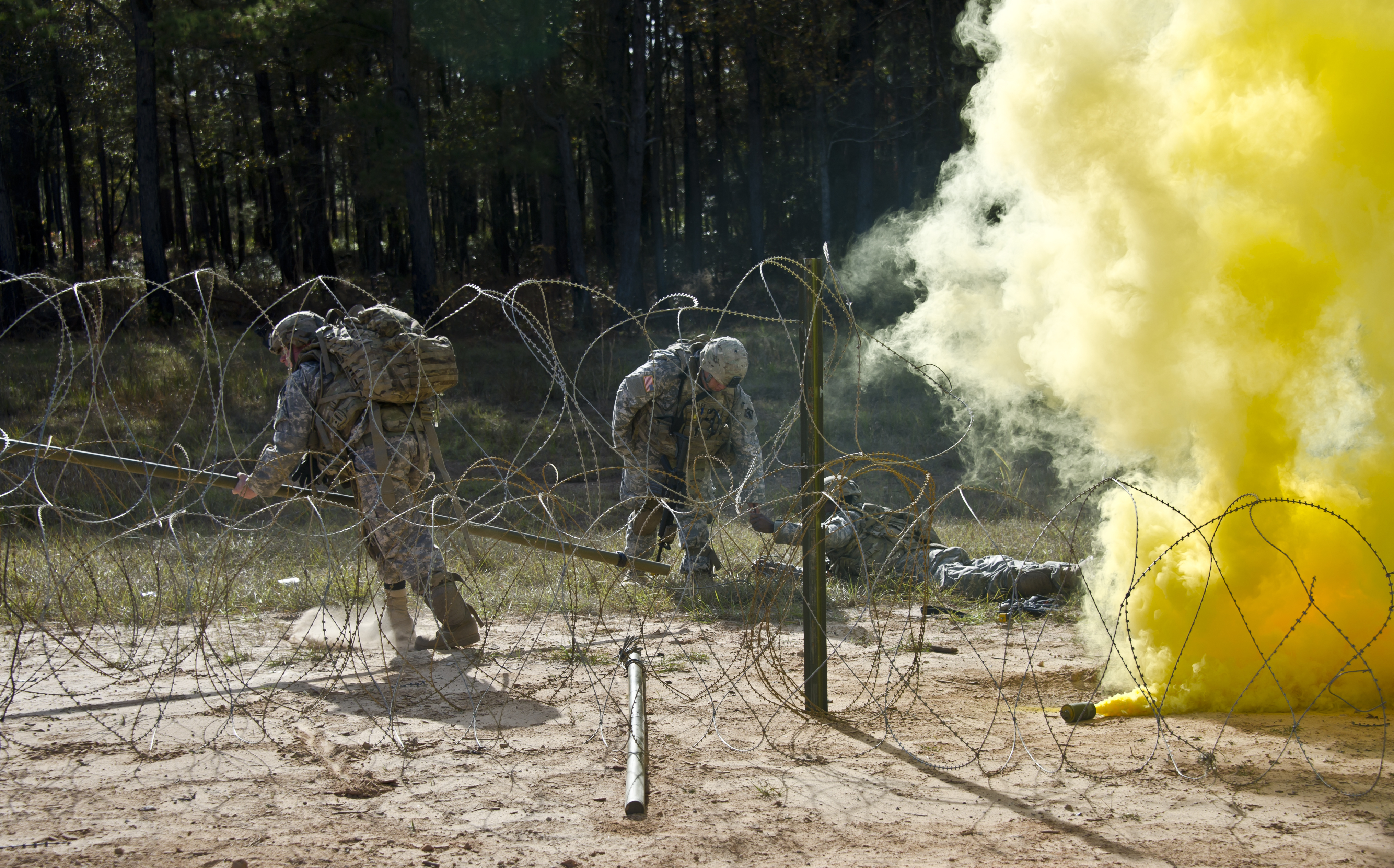 Soldiers of the 530th Engineer Company “Bloodhounds”, 92nd Engineer Battalion, attached to the 2nd Brigade Combat Team, 3rd Infantry Division, use a smoke grenade for concealment as they prepare to set up M1A2 Bangalore Torpedoes on a concertina wire obstacle during a training exercise here, Dec. 5. The torpedoes are long sticks of explosive, designed to be readily employed to breach large obstacles. The Bangalore breach mission is commonly referred to as the “WWII breach” as it is a tactic that was much more commonly used in the WWII era, said Cpt. Colby Larson, the executive officer for the 530th Eng. Co. However, soldiers still train up on it today so that they will be ready for whatever is needed of them when the time comes. This training was just a small part of a three-day, nine-event training exercise that the 530th has conducted to better assess and develop the necessary skills within the Soldiers of the only route clearance company in all of Fort Stewart. (U.S. Army photo by Sgt. Richard Wrigley, 2nd BCT, 3rd Inf. Division Public Affairs)